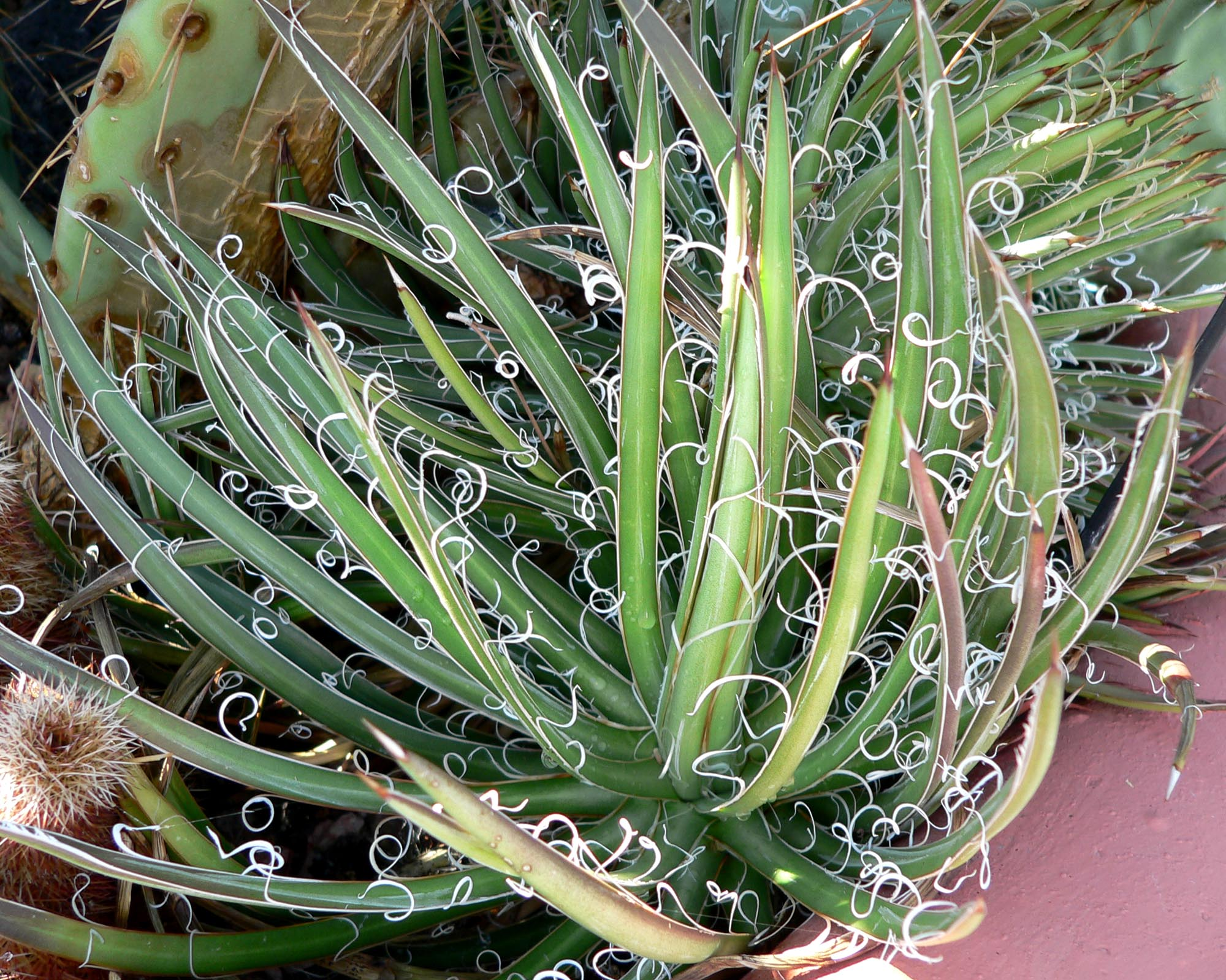 Photo of Agave leopoldii at the Springs Preserve garden in Las Vegas